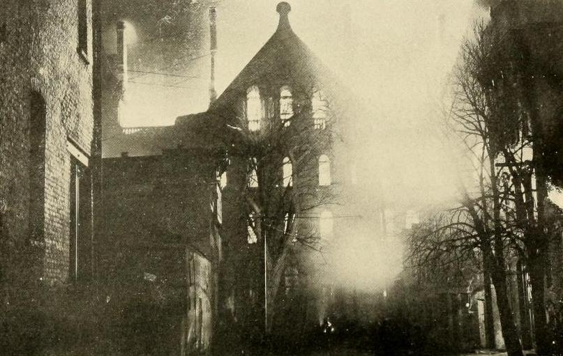 Image of the New York State Capitol during the great fire in March 1911